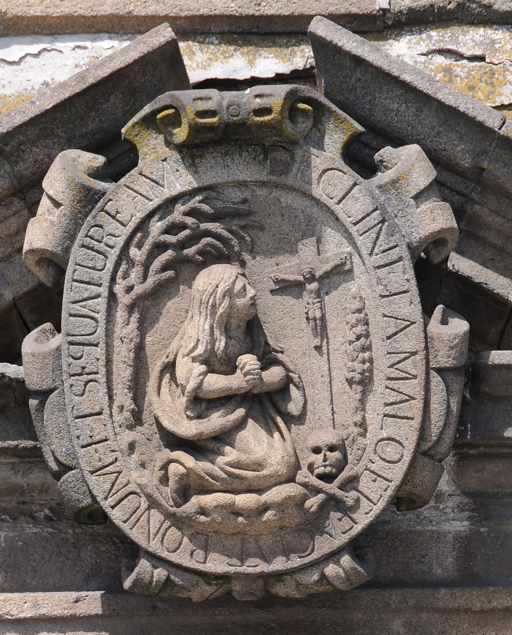 Decoration in Edifício do Recolhimento de Santa Maria Madalena ou das Convertidas, in Braga, Portugal